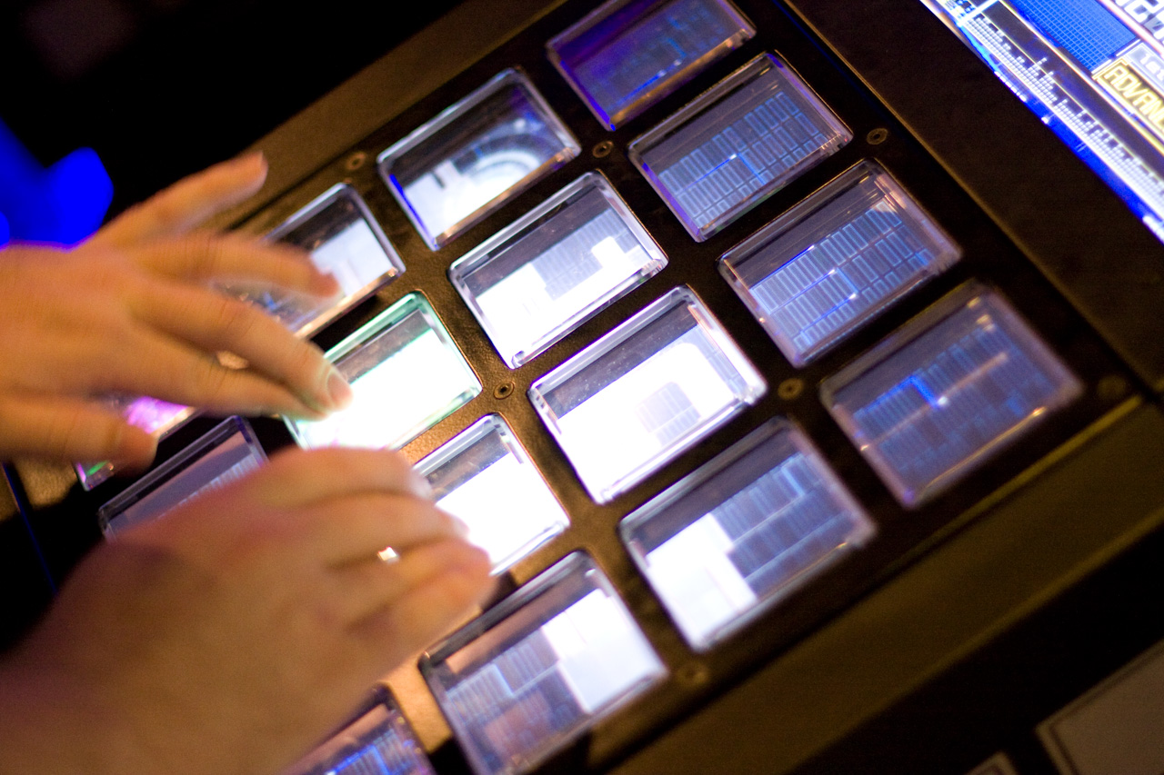 A friend plays Ubeat at the location test in Irvine, California on September 11th, 2008. Taken at Boomers! in Irvine, California.